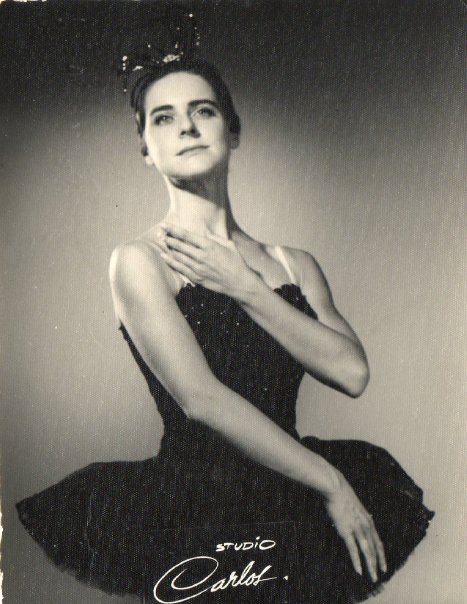 Teresa Mann in a production of Swan Lake, National Ballet of Panama.